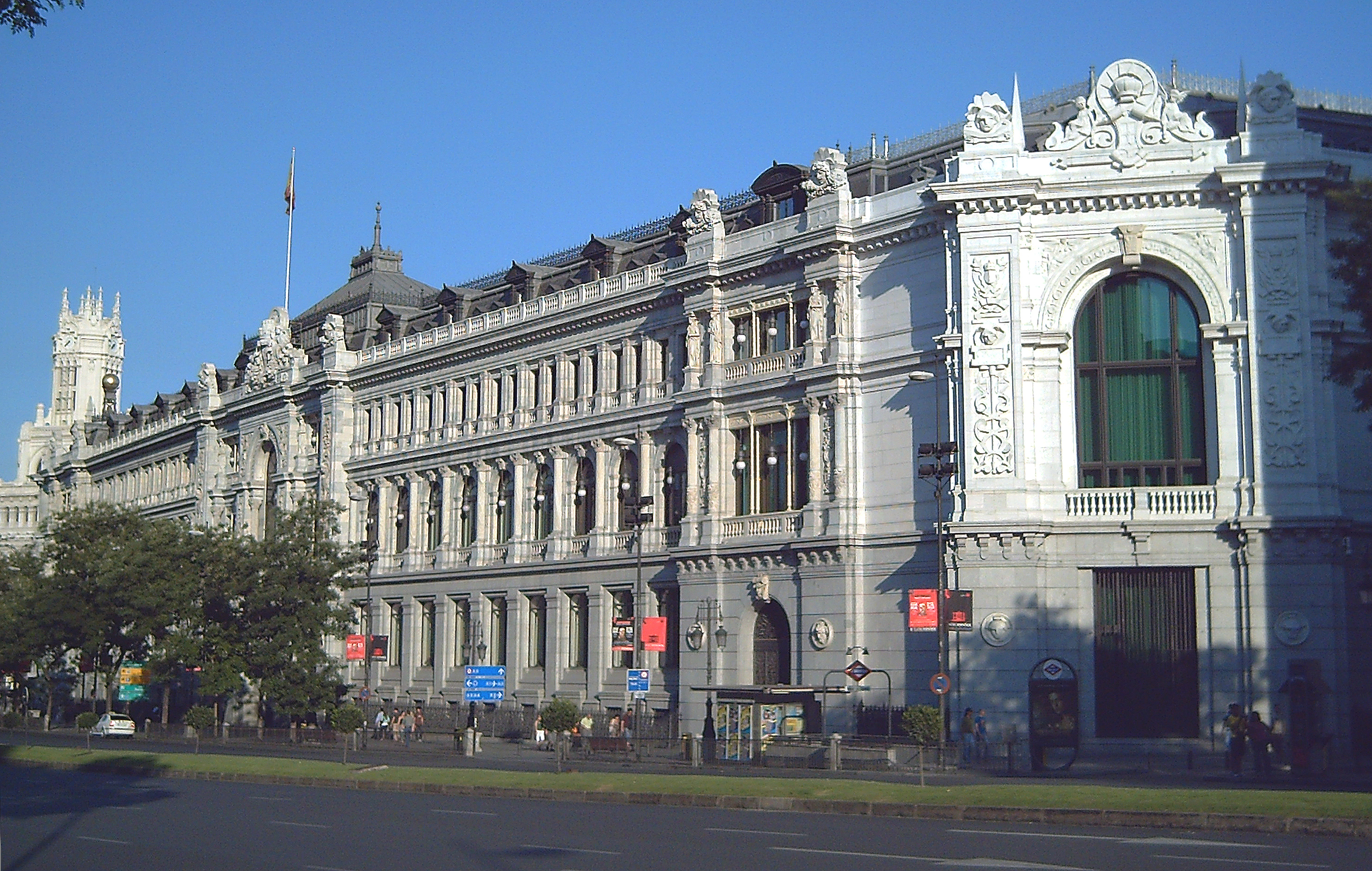 North façade (Calle de Alcalá, street) of the Bank of Spain headquarters, in Madrid. Built between 1884 and 1891; extensions in 1930–35, 1969–75 and 2003–06.